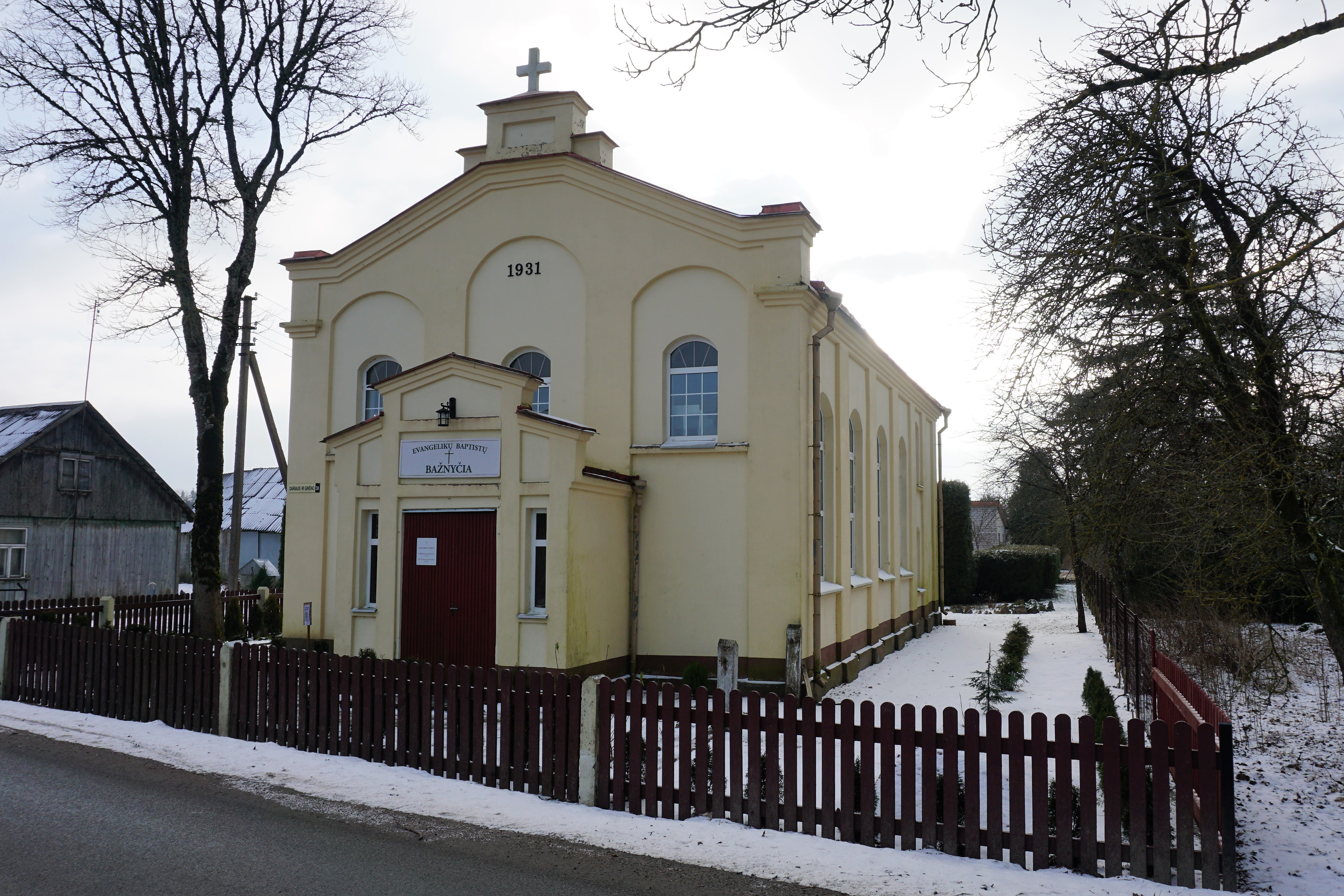 Ylakiai Baptist church Žemaitėška: Īlakiū evangeliku baptistu bažninčė